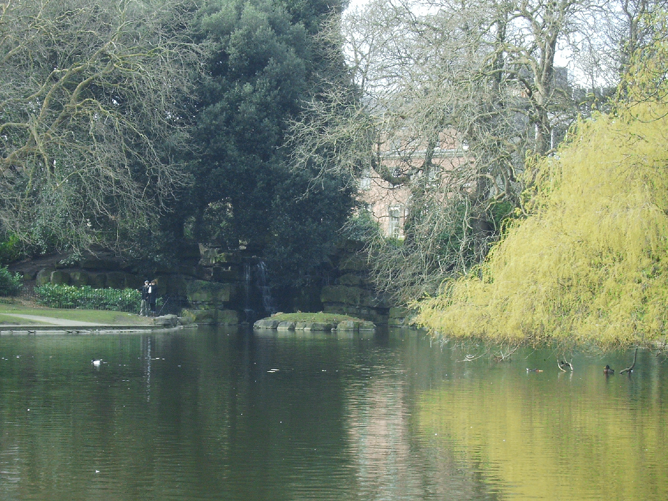 St Stephens Green in Dublin